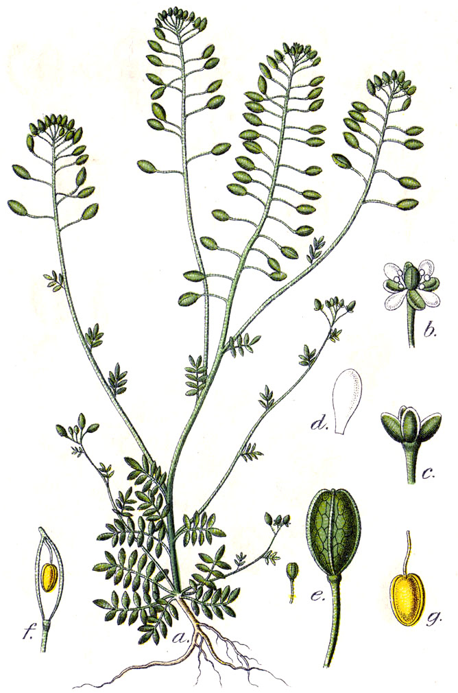 Hornungia petraea (L.) Rchb., syn. Crucifera hornungia E.H.L.Krause Original Caption Hornungie, Crucifera hornungia